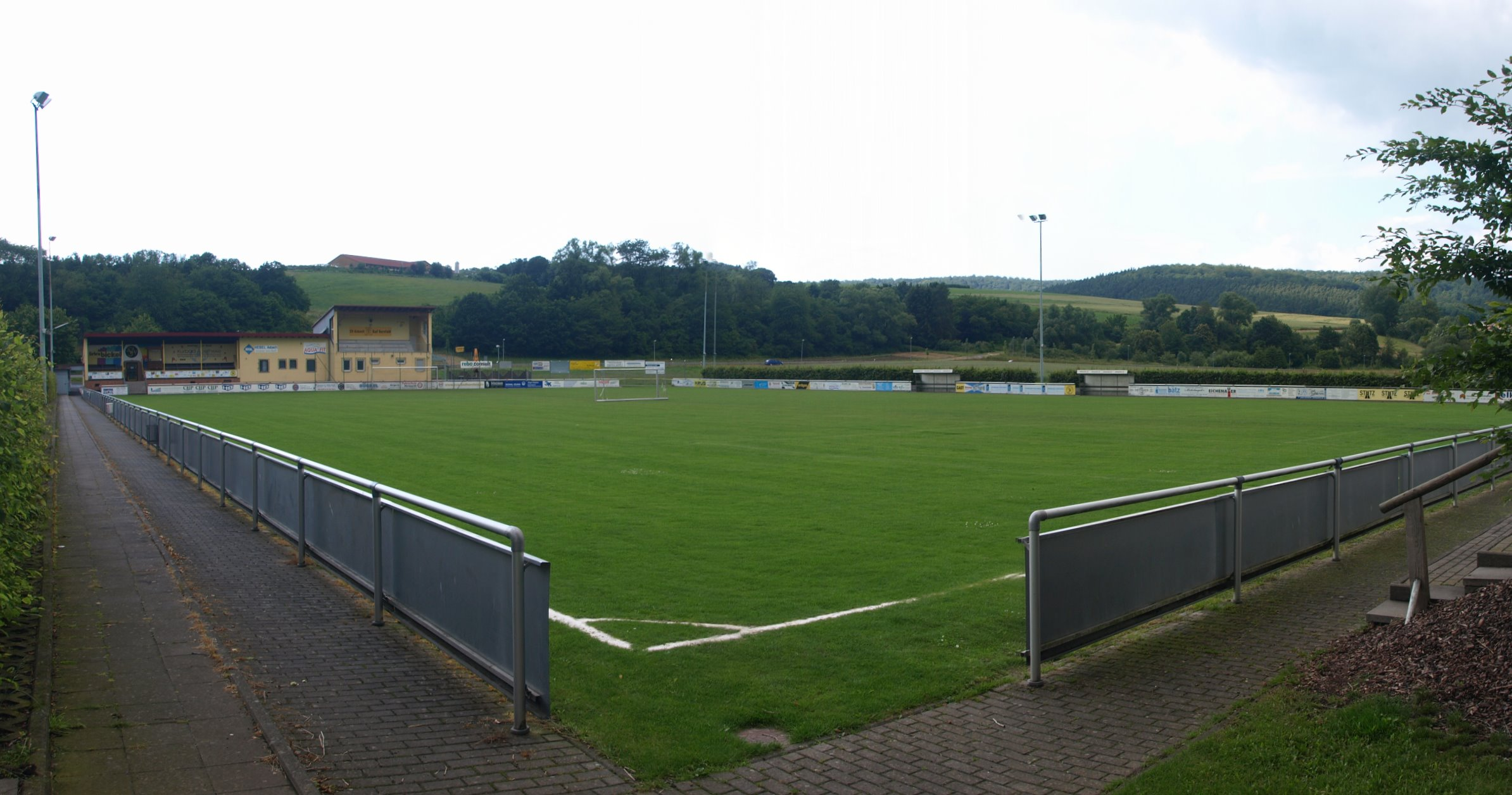 football ground and tribune building of football club "SVA Bad Hersfeld"